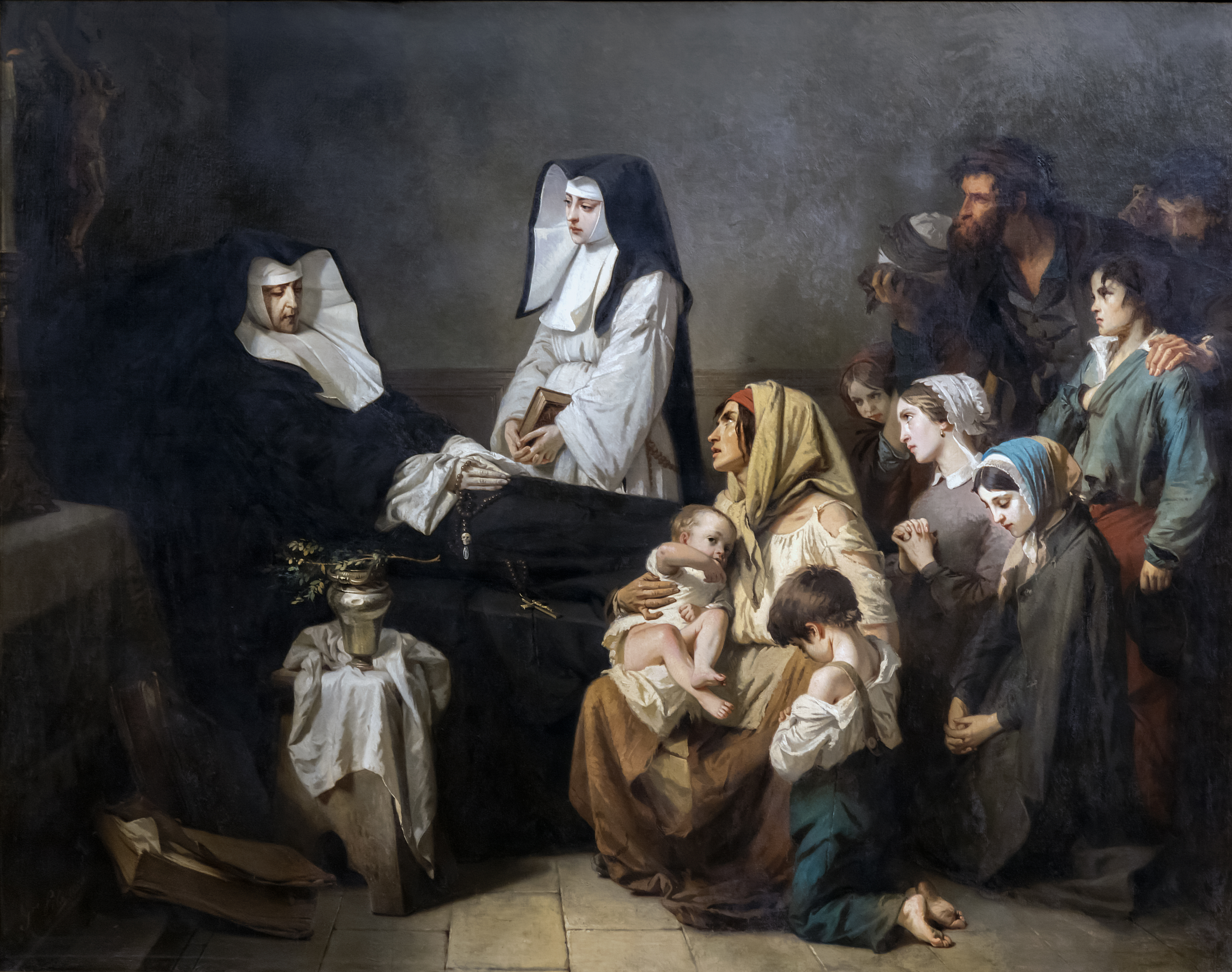 Death of Mother Saint Prosper, nun, sister of charity, at St. Louis hospital in Paris.